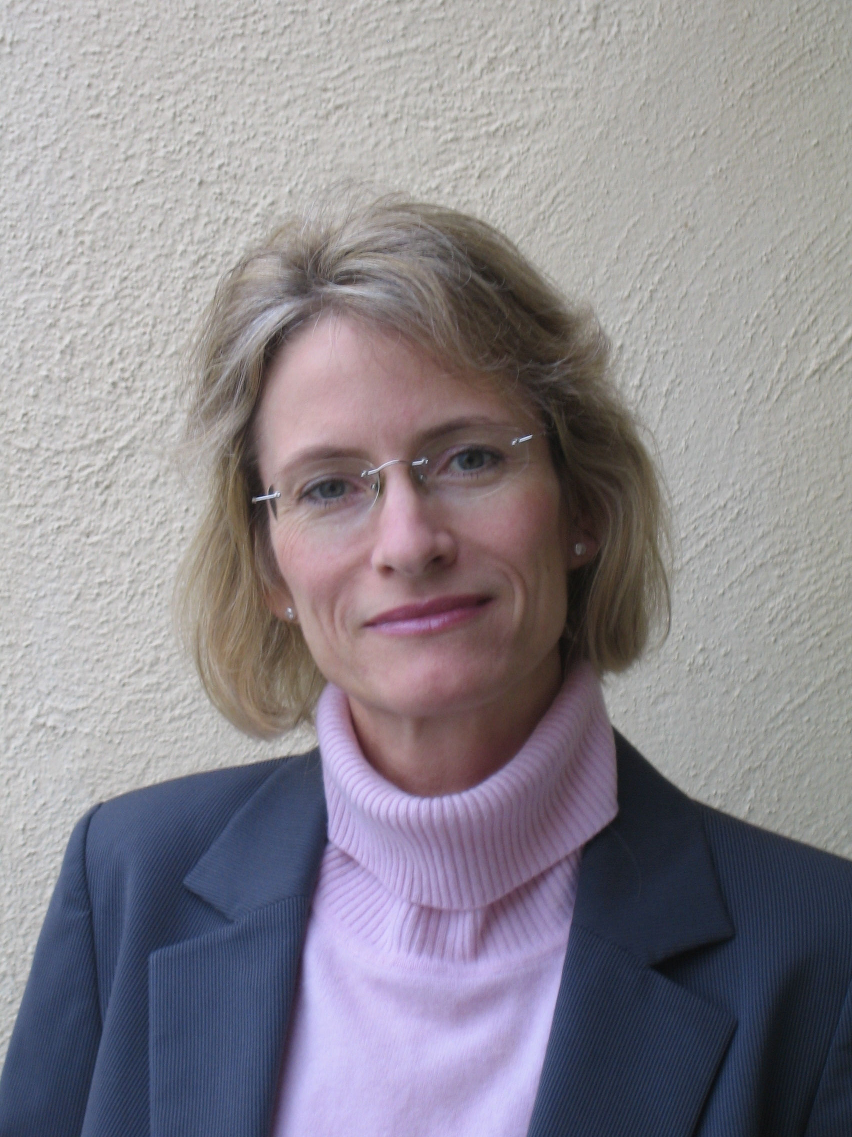 Tanja Scheer